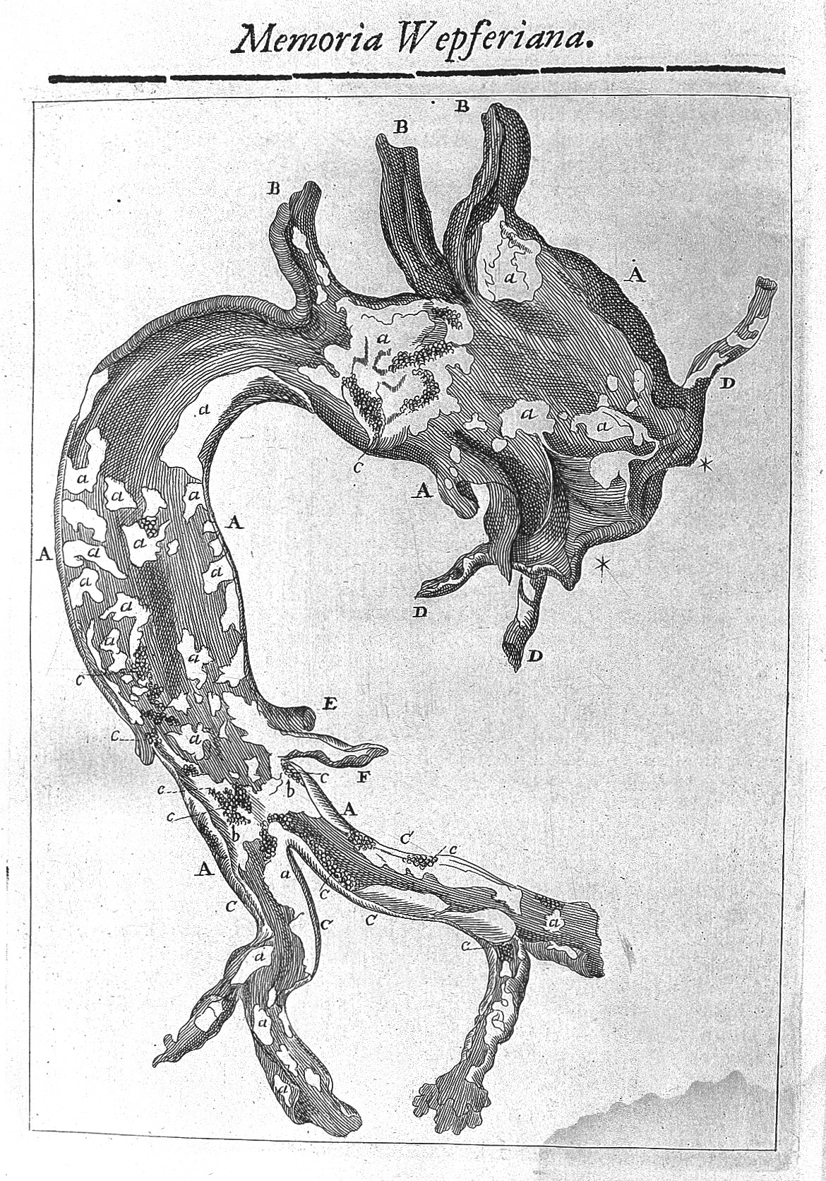 The aorta Rare Books Keywords: Pathology; Johann Jakob Wepfer